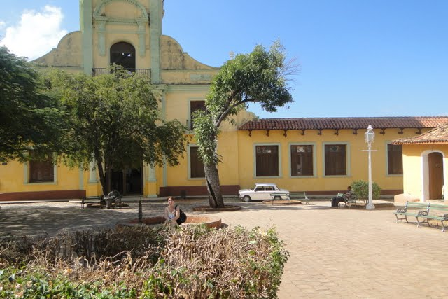 Square in front of Convento de San Francisco, Trinidad